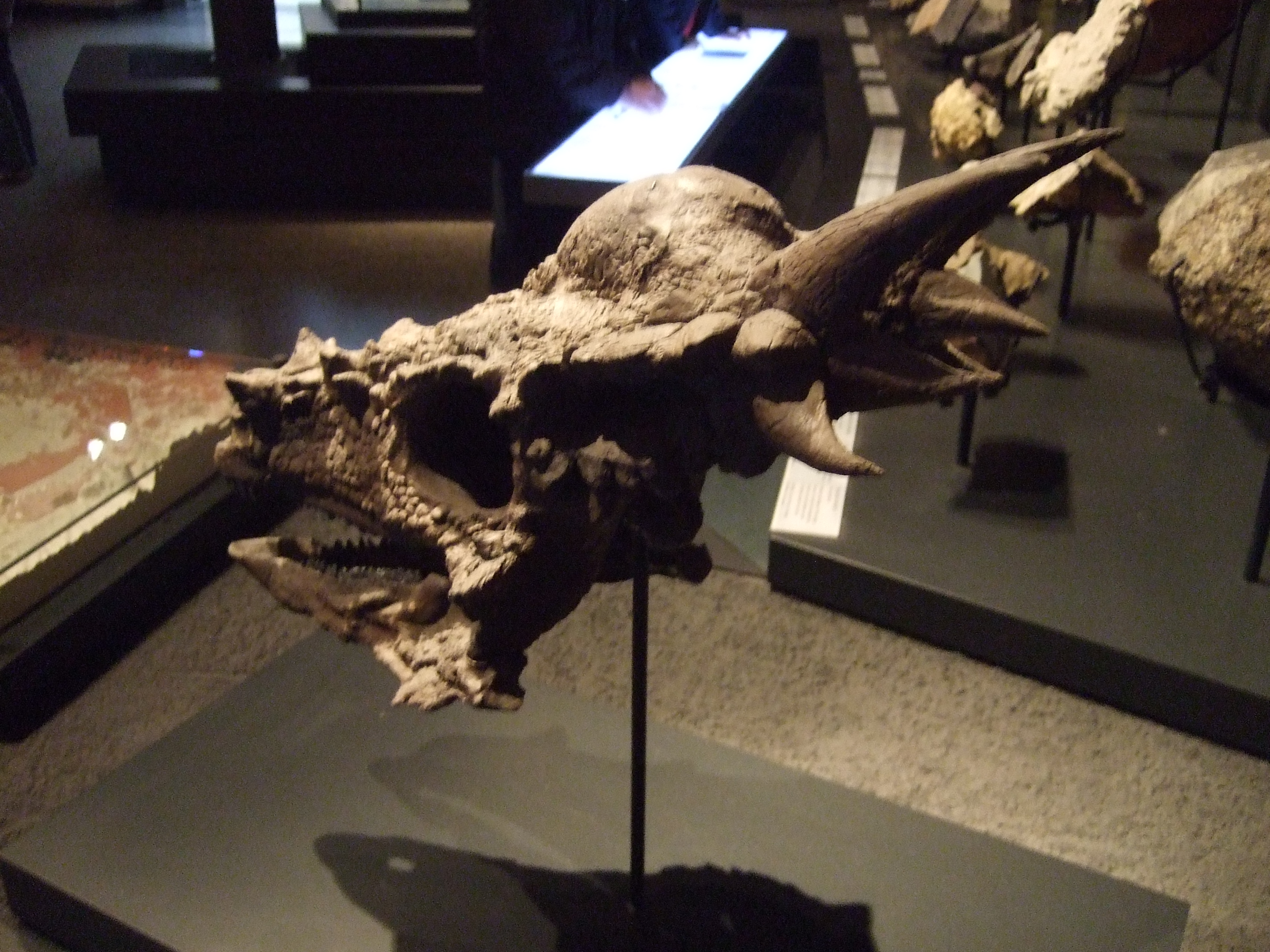 Museum für Naturkunde Berlin. Fossil Stygimoloch spinifer skull. North Dakota, USA; 66 million years old